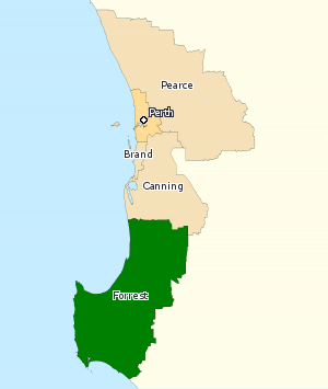 This image incorporates data that is: © Commonwealth of Australia (Australian Electoral Commission) 2009 Division of Forrest 2010